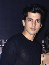 Chivas Kwan Party